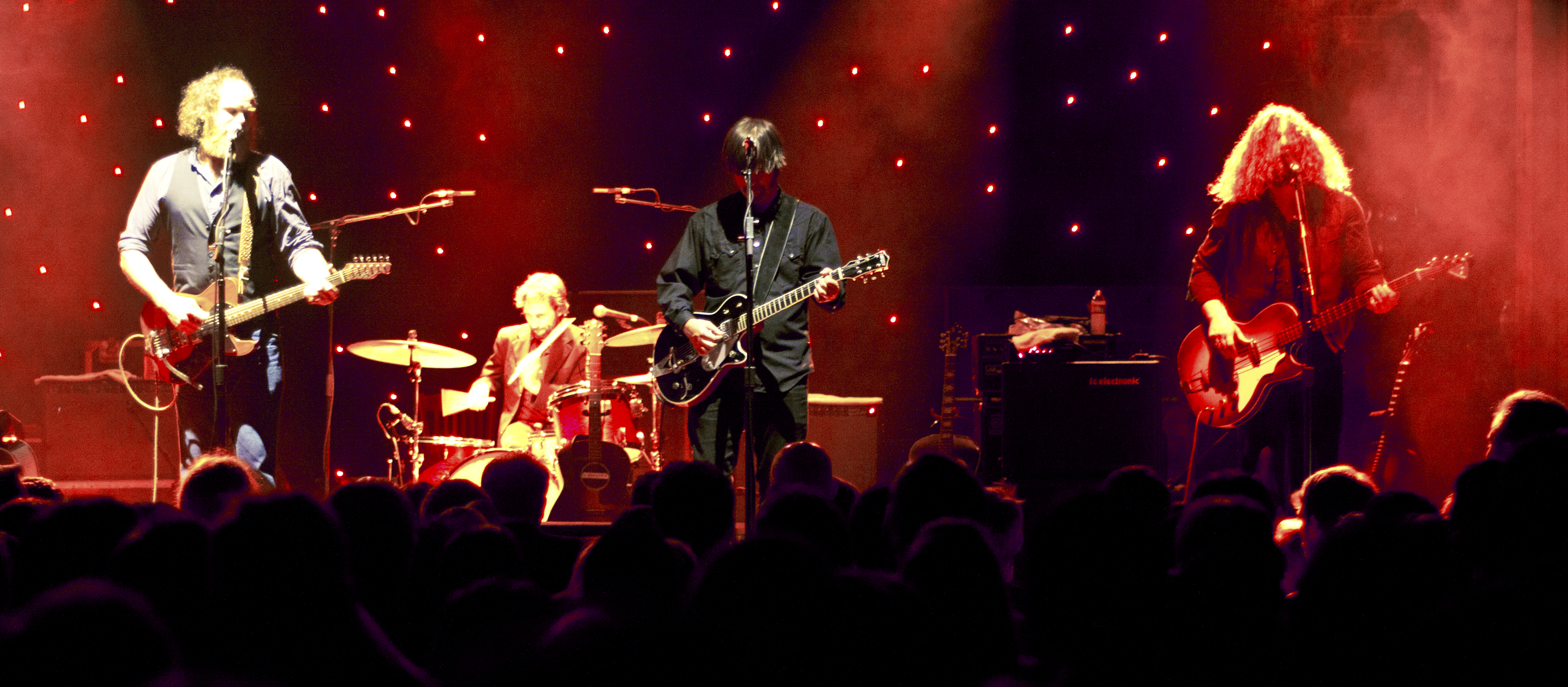 The New Multitudes performers playing Webster Hall in New York City (from left to right: Anders Parker, Will Johnson [drumming], Jay Farrar, and Jim James (Yim Yames).)